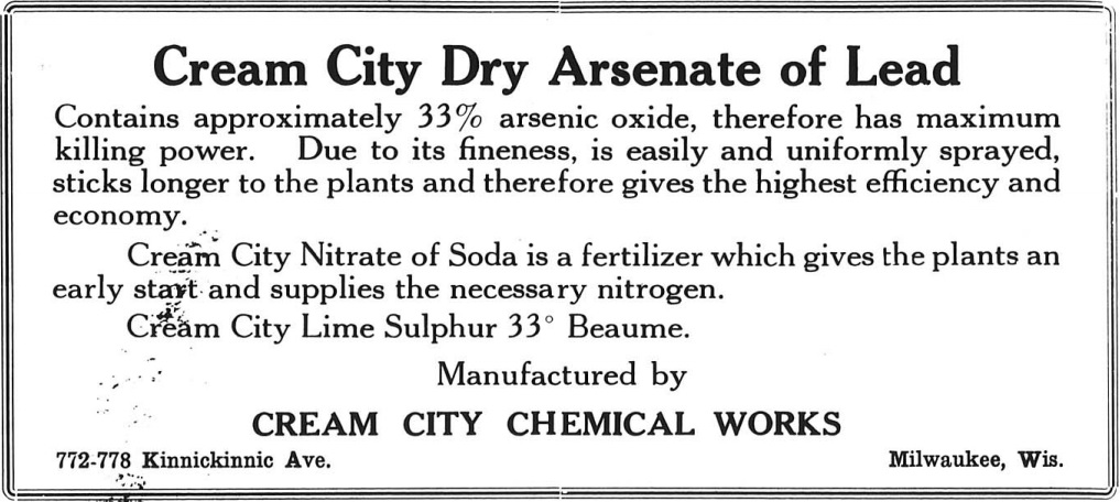 advertisement for Cream City Dry Arsenate of Lead